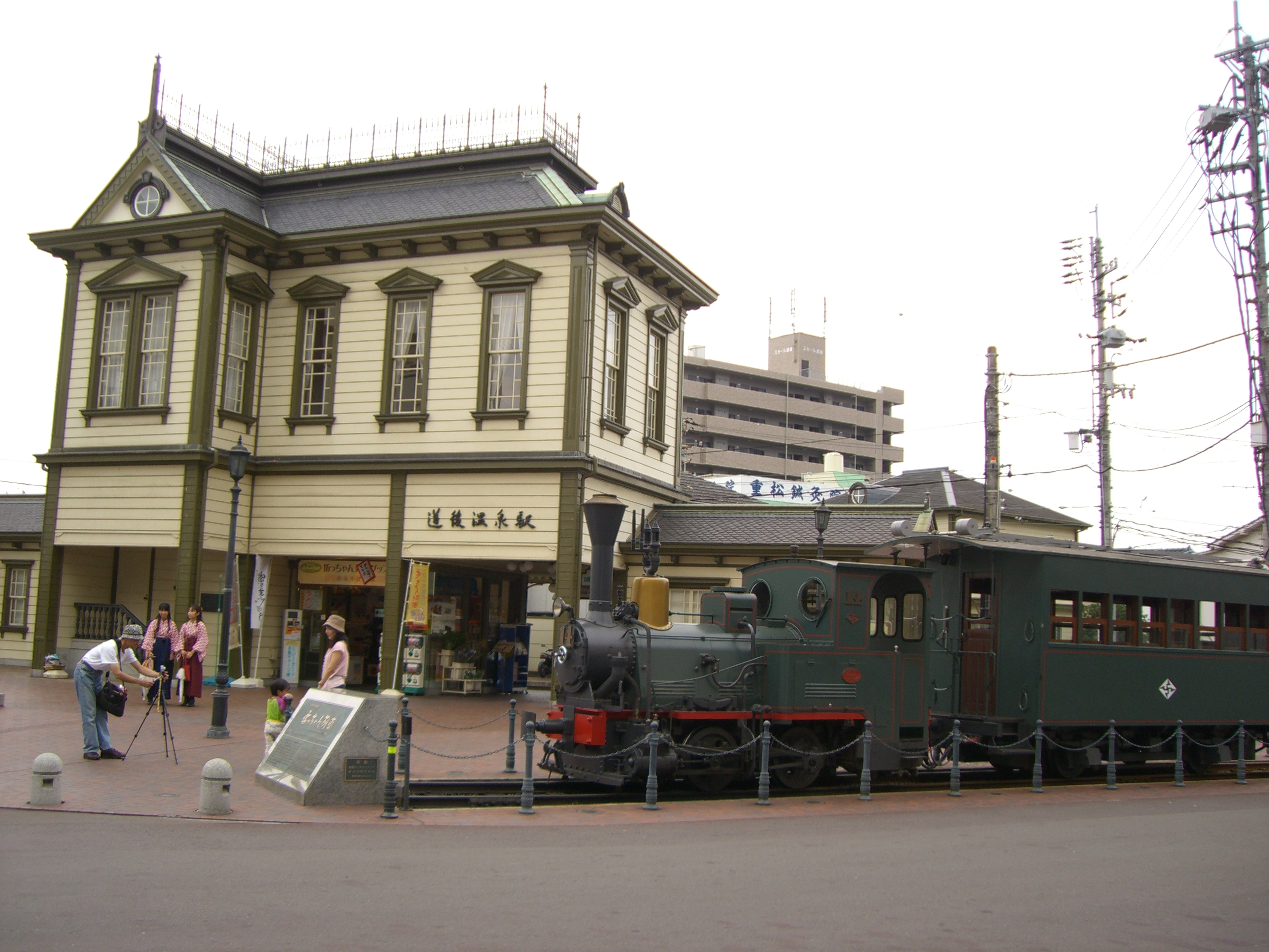 “Dogo Onsen Station” This train stop, also known as the doorway to the “Dogo Onsen” Hot Springs, embodies all the innocent charm of the Meiji Era and stands out admirably as a landmark within the picturesque Hot Springs Resort District.